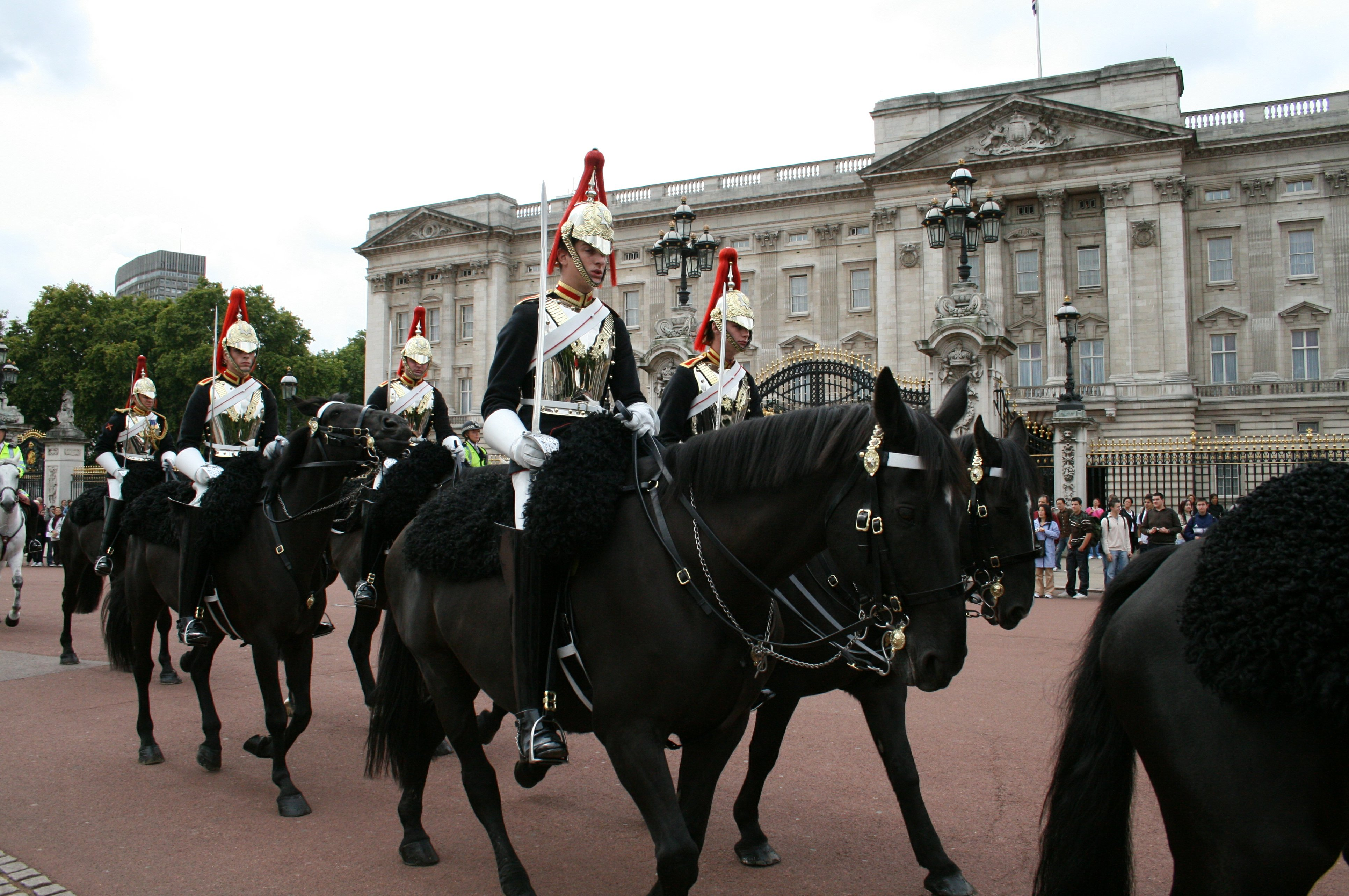 In and around London